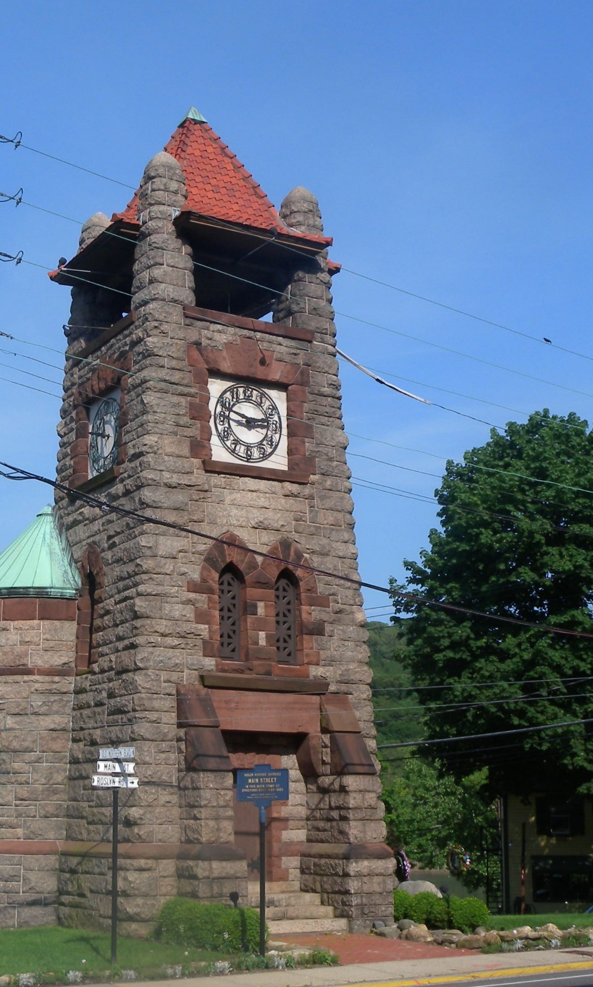 Looking east at Roslyn clock tower on a sunny afternoon.